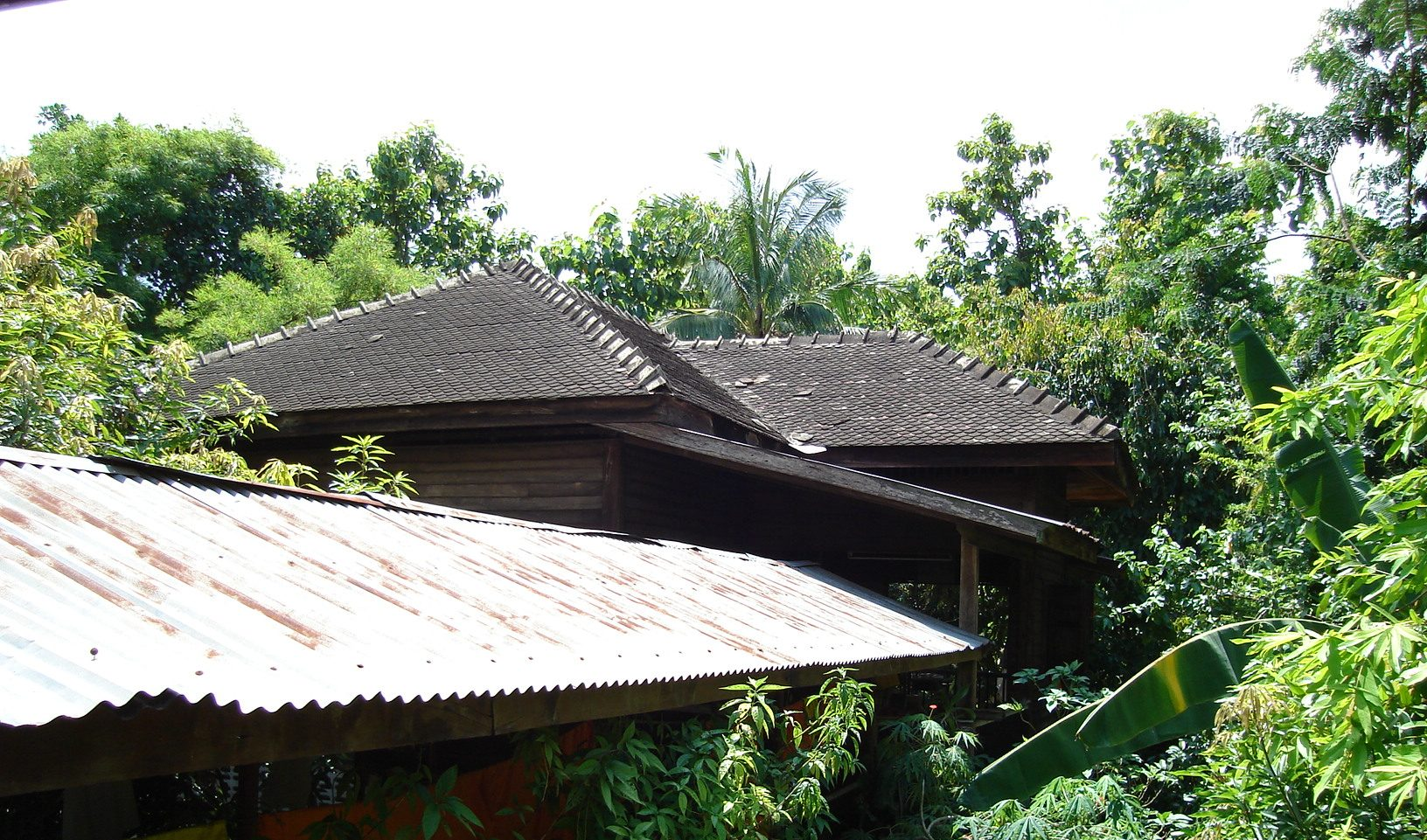 Wat Khung Taphao, Ban Khung Taphao, Khung Taphao subdistrict, Mueang Uttaradit, Uttaradit Province, Thailand.) on December 2, 2008.